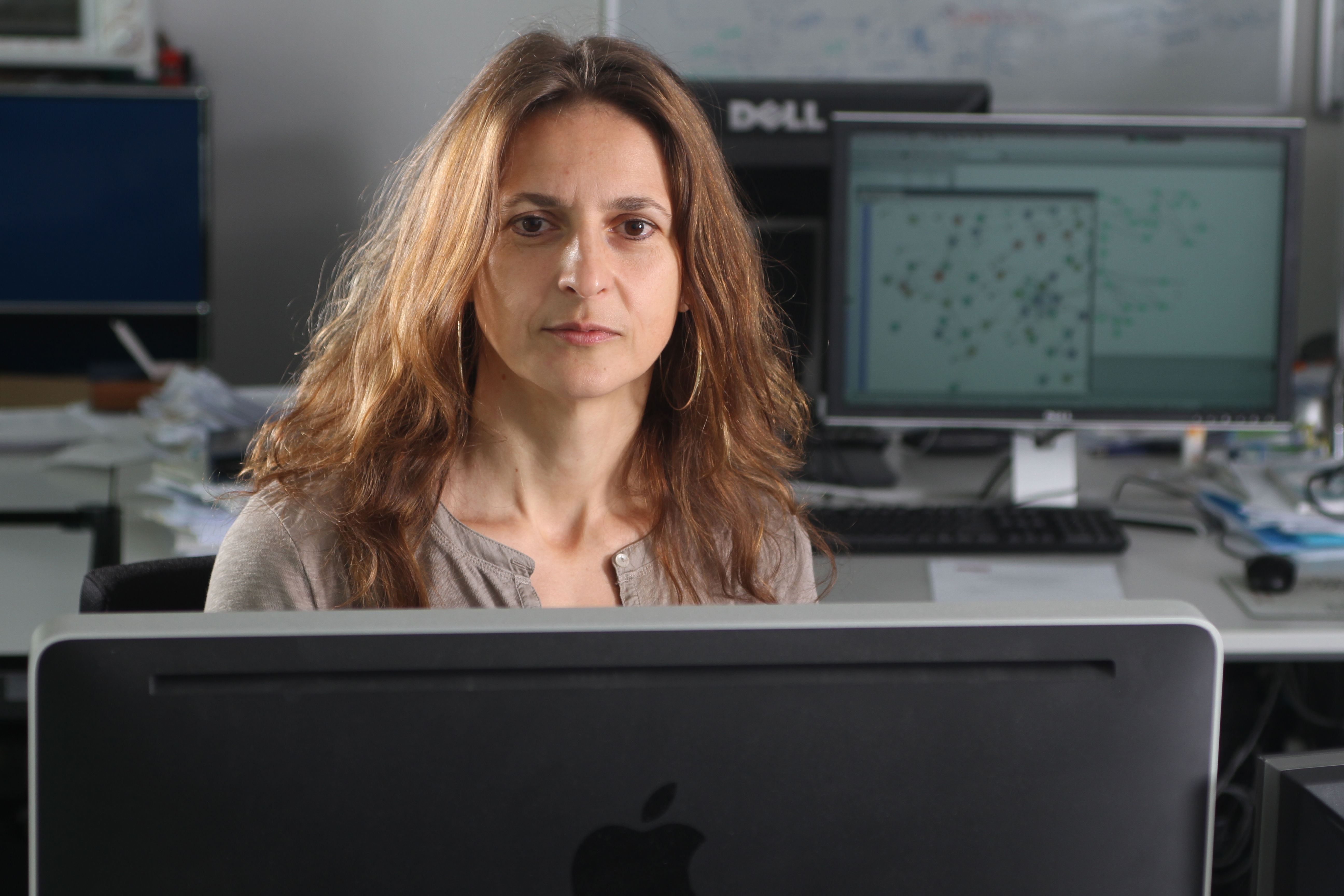 Professor Mihaela Zavolan, Biozentrum University of Basel Switzerland